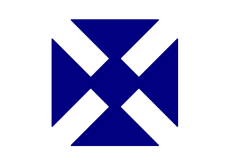 XIX Corps, Middle Military Division, 3rd Division Badge